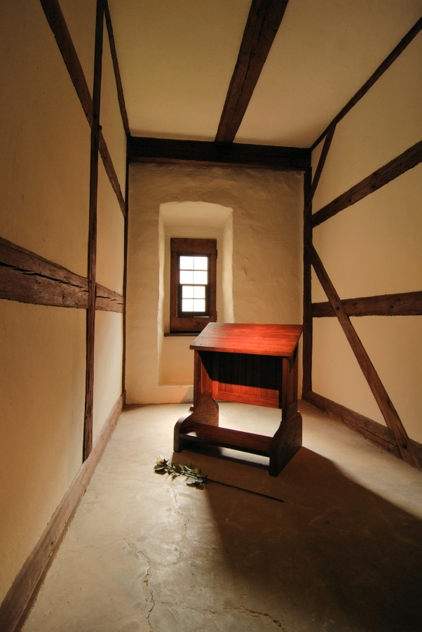 Augustinerkloster in Erfurt Lutherzelle""